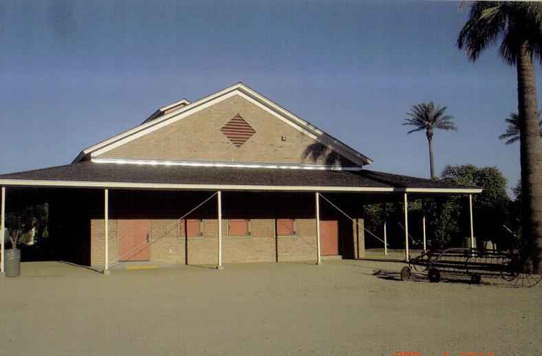 1890 Feed and Storage house of Saguaro Ranch, Glendale.